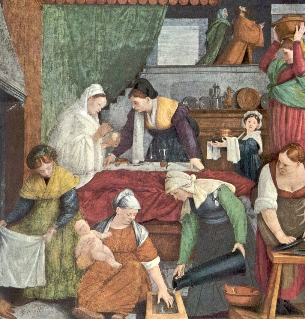 Gaudenzio Ferrari, Stories of the Virgin detail: Nativity of the Virgin, fresco, 1529, Church of St. Cristoforo, Vercelli, Italy.